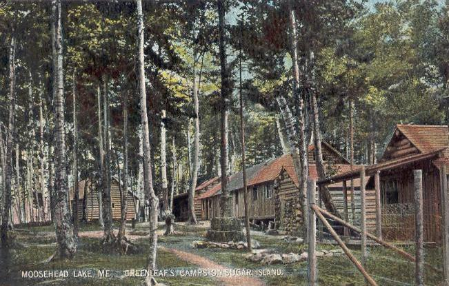 Greenleaf's Camps on Sugar Island, Moosehead Lake, Maine